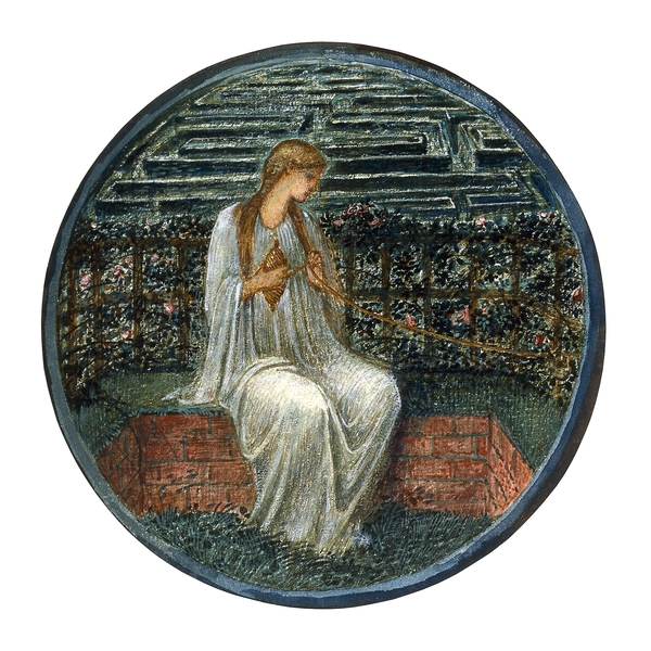 Reproduction of "Love in a Tangle" by Edward Burne-Jones from the 1905 limited edition of "The Book of Flowers"